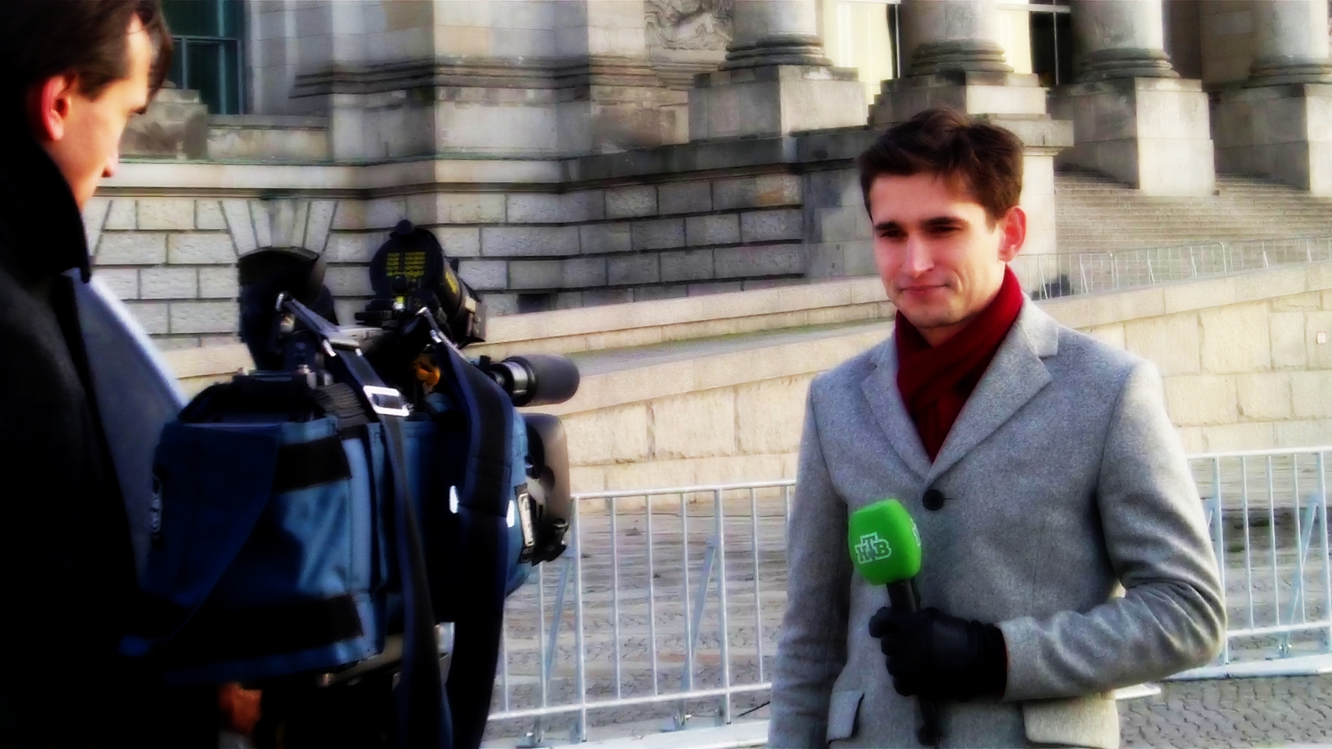 This image shows a Russian TV reporter from NTV (Независимое телевидение/Nesawissimoe telewidenie) standing in front of the German Parliament Bulding, the "Reichstagsgebäude" in Berlin.